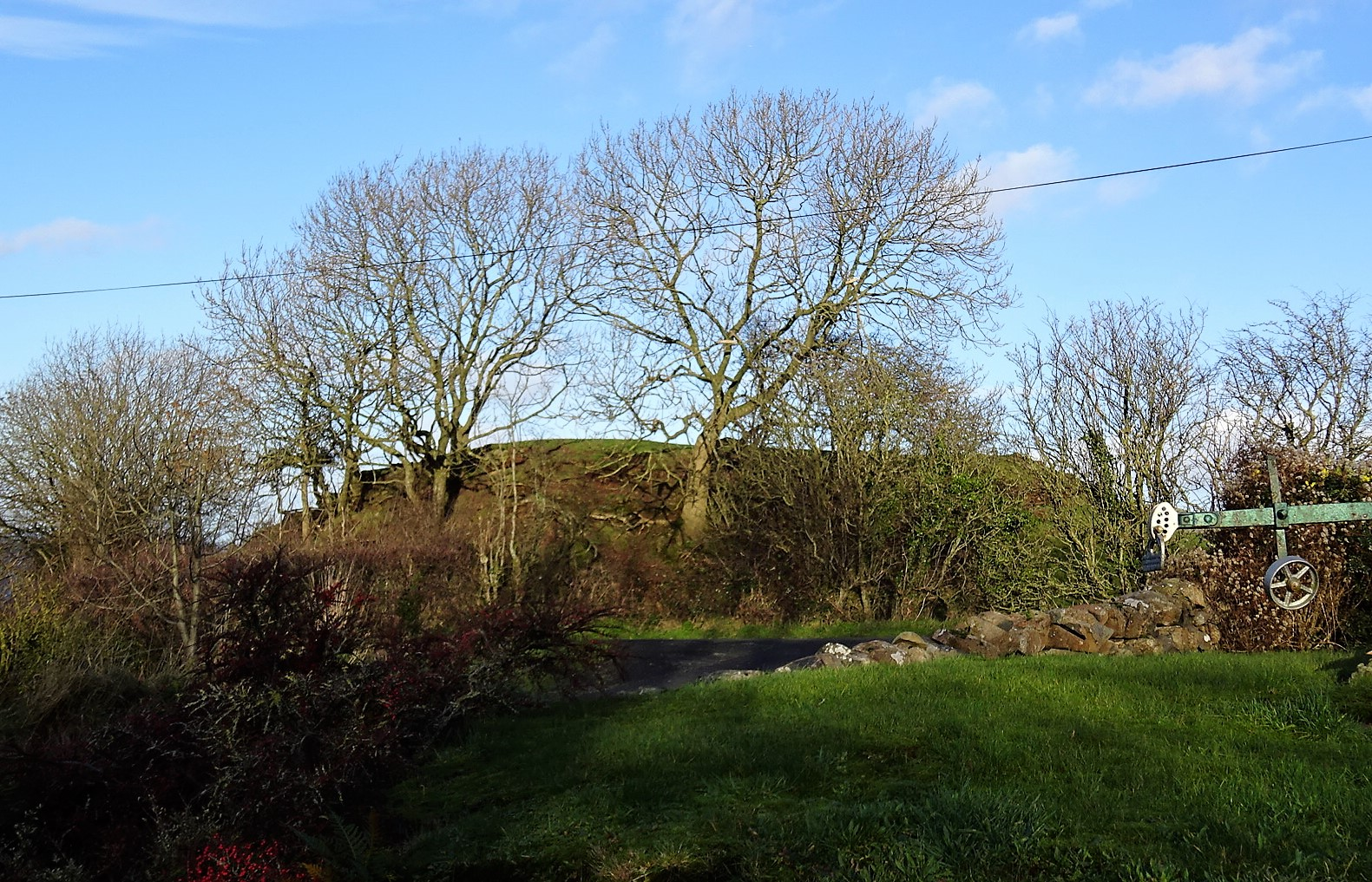 Carleton Motte from Little Carleton Farm, Lendalfoot, South Ayrshire, Scotland. Locally known as Carleton Fort. A precursor to the nearby tower castle.